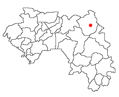 Siguiri, Guinea Location Map; created with the GIMP. Made by User:Acntx.